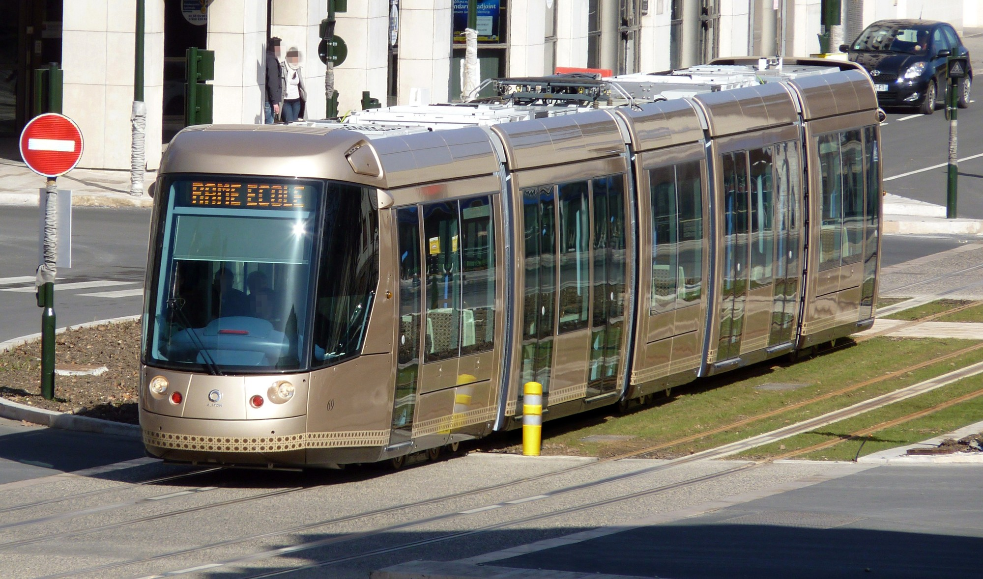 Citadis 302 on the tram line B in Orléans. Ground-level power supply.